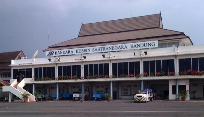 View of Bandung Airport terminal building from tarmac.